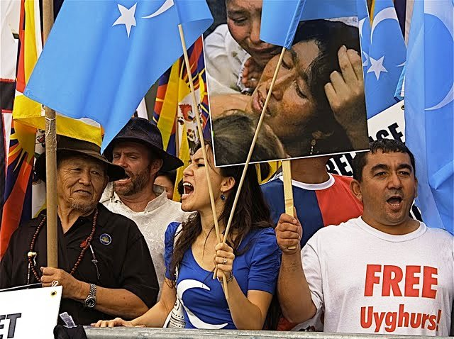 Protest at UN Climate Summit